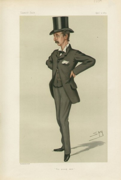 Caricature of Edward Stanhope. Caption read "The young man".